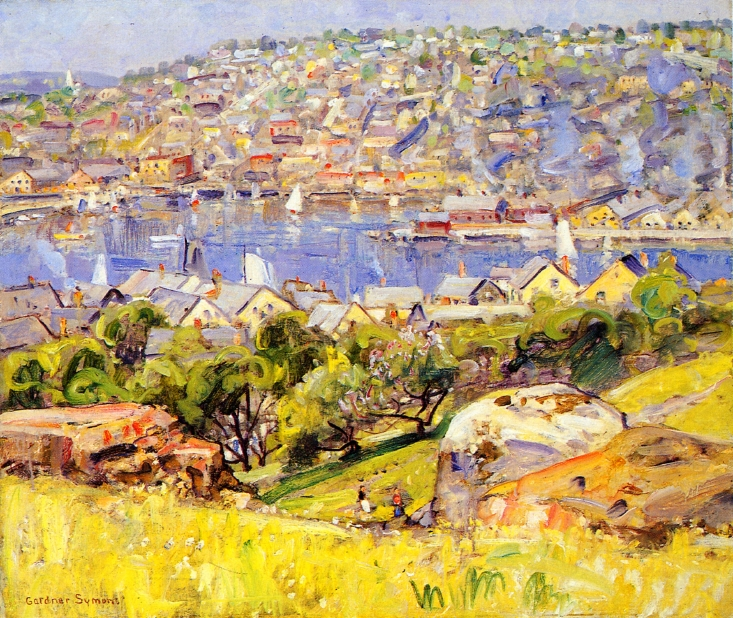 prob. Cornwall in the UK?